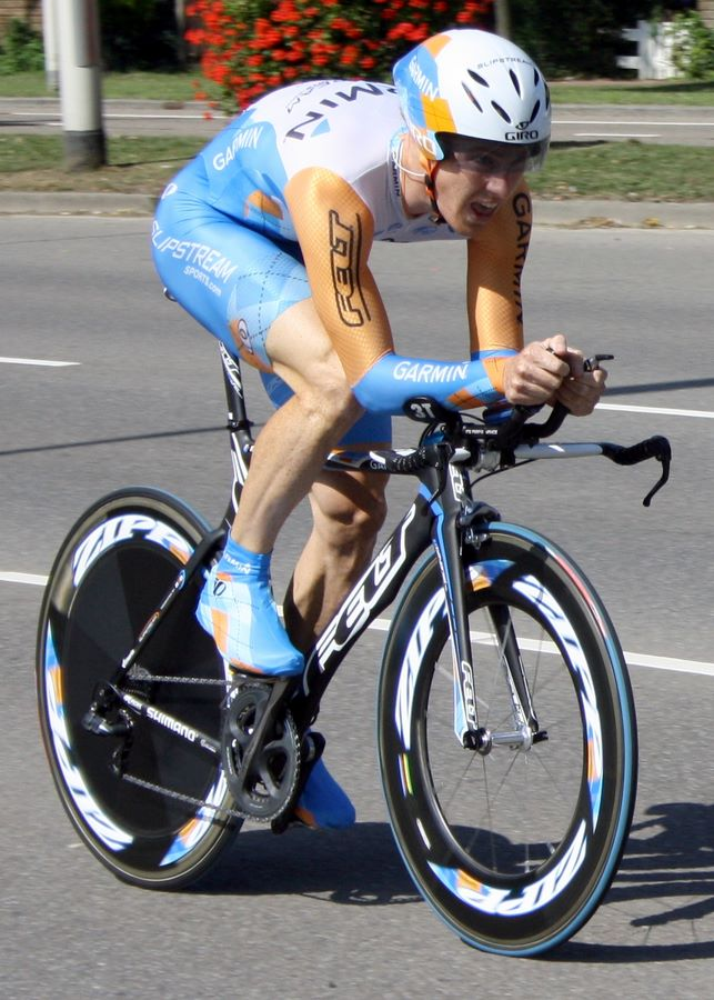 Tyler Farrar at the 2009 Eneco Tour prologue